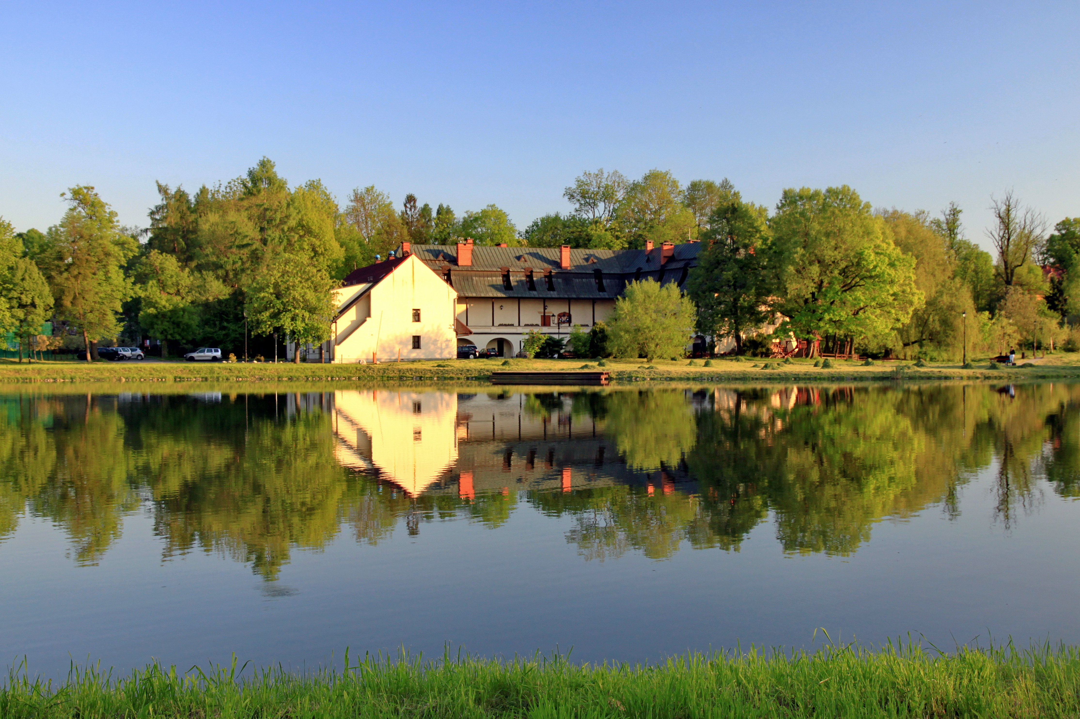 Kończyce Małe, castle, build in 16th century